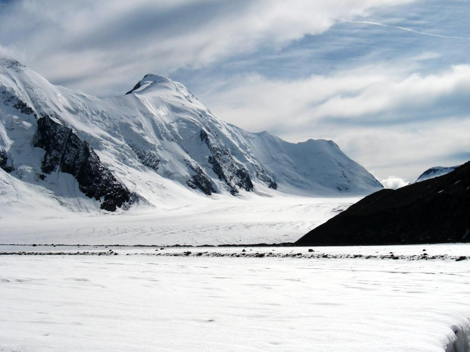 Aletschhorn (4193m) from Konkordiaplatz, Bernese Alps